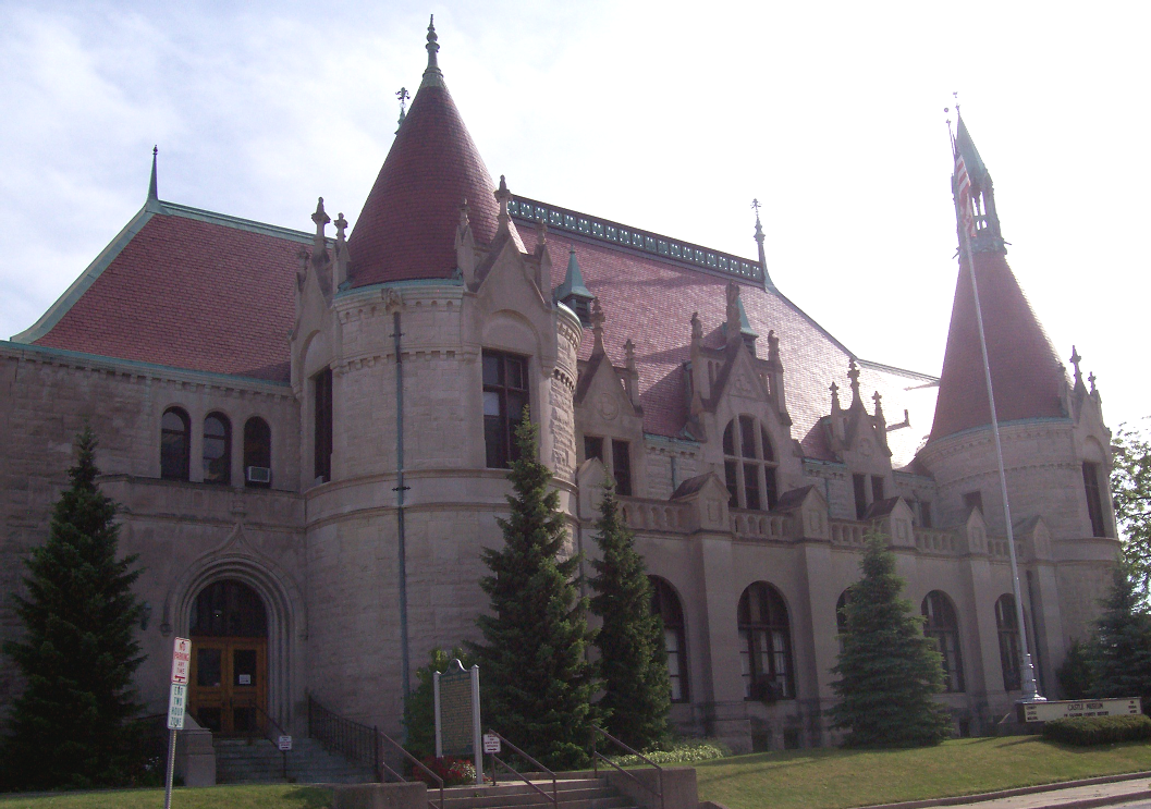 The former Castle Station post office, which is now the Castle Museum of Saginaw County History, in Saginaw, Michigan, United States, is listed on the US National Register of Historic Places (NRHP).